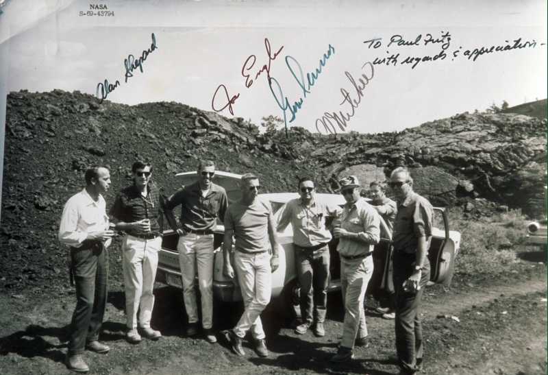 Members of the Apollo-14 Team at Craters of the Moon National Monument, Idaho, USA. The image shows Alan Shepherd, Joe Engle, Eugene Cernan and Edgar Mitchell along with park staff. The image is signed by the four astronauts.